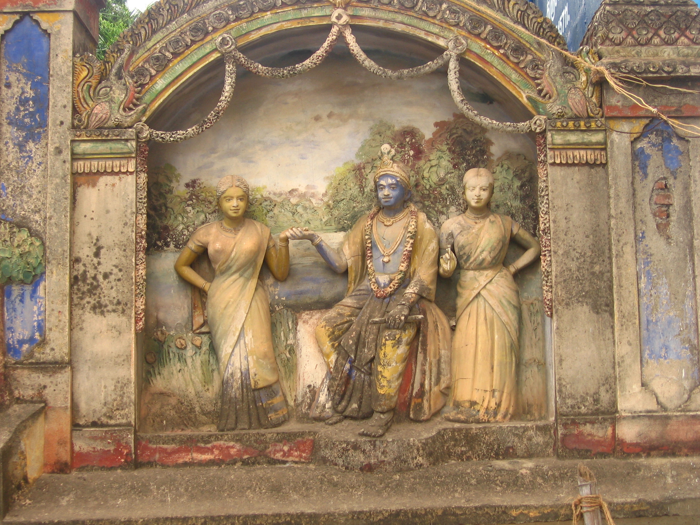 just found impressive at one of the Mandapam at Srirangam